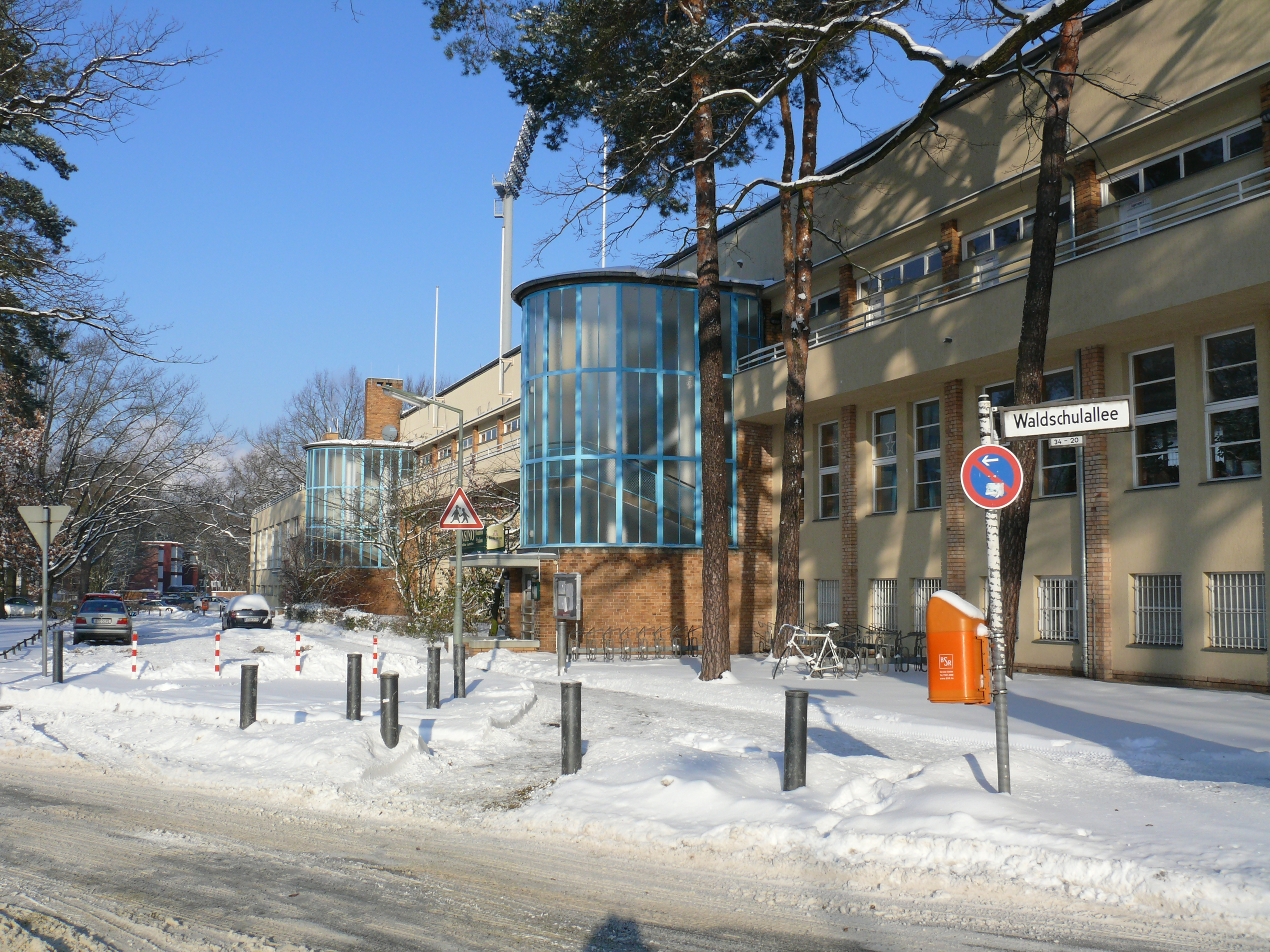 Berlin-Westend Mommsenstation